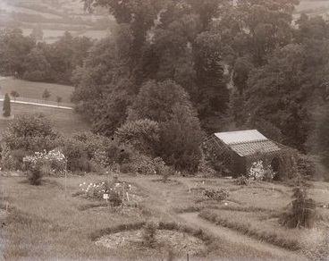 Annie's arboretum: Photograph by Colonel Blathwayt. He was the father of Mary Blathwayt and they lived at Eagle House in Somerset. The pictures were taken between 1909 and 1911